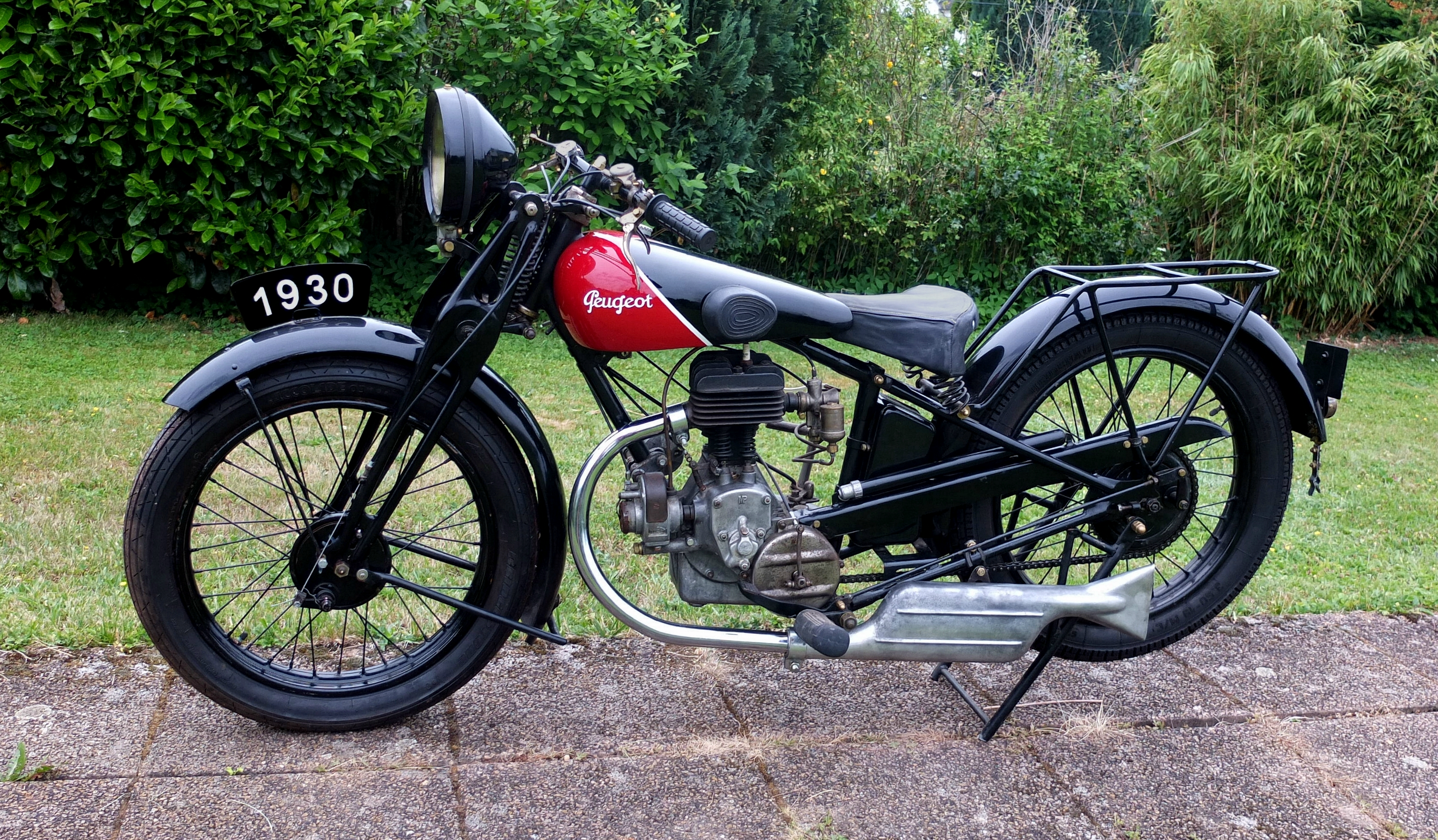 Peugeot Motorbike Type P110, 215 cm3, built 1930.